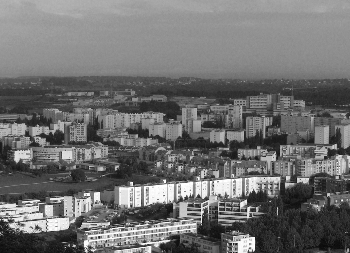 View of Planoise (sector of Ile-de-France and Casin) from the hill of Planoise, in Besançon (France).